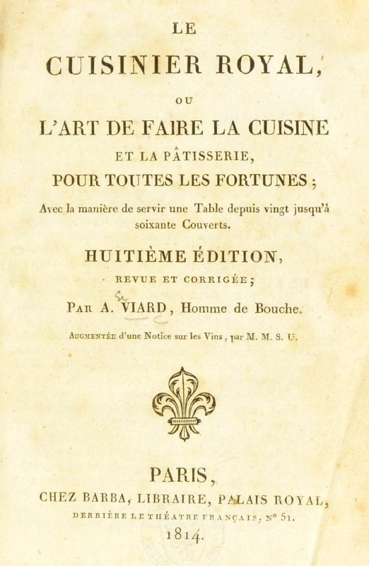 Title page of Le Cuisinier royal (André Viard, 1814)